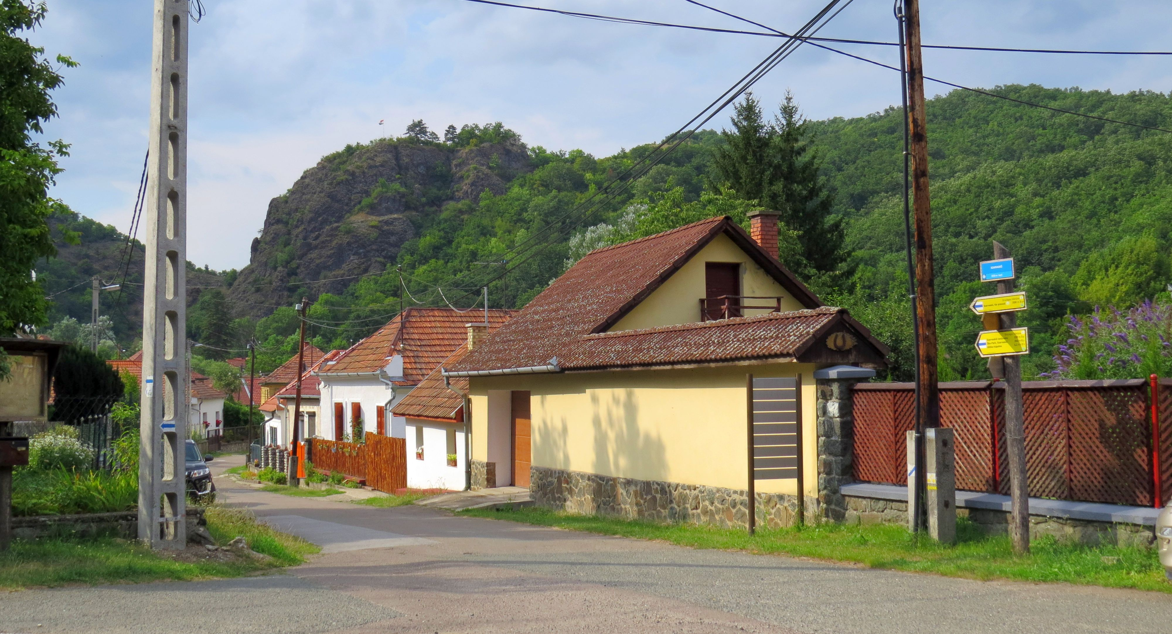 Jellegzetes szarvaskői utcarészlet, háttérben a Várheggyel.